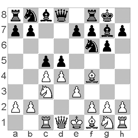 chess diagram Botvinnik gambit Source: CBlight + my processing